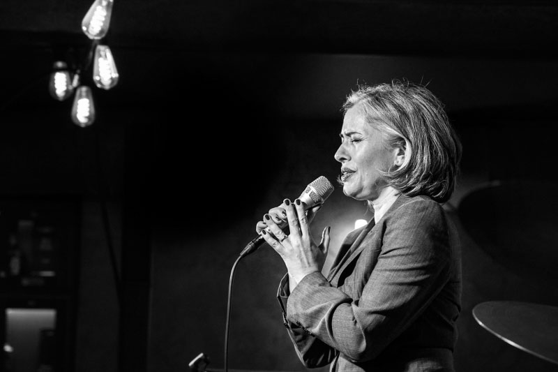 Veronica Mortensen (2019) Aarhus, Denmark